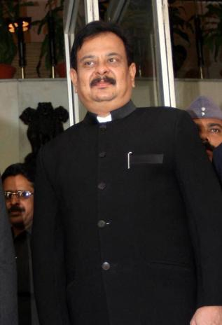 Dr, Deshmukh during the Maharashtra State Budget presentation.